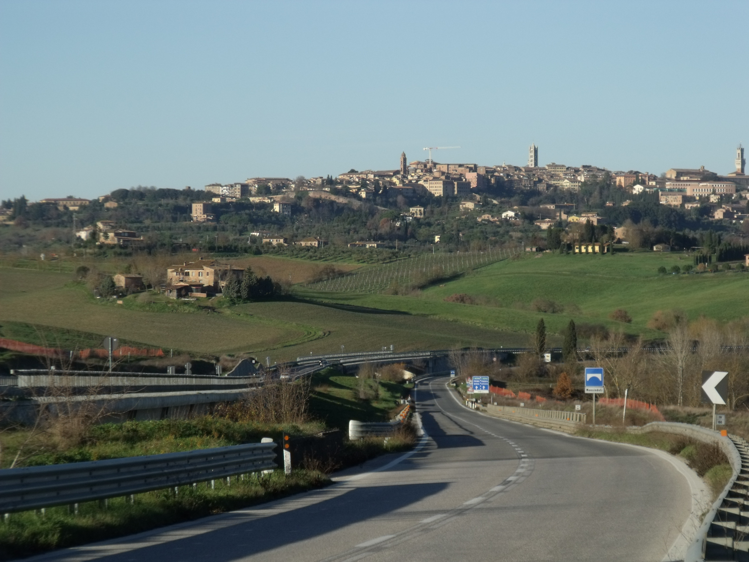 SS223 and E78 in the south of Siena, Tuscany, Italy